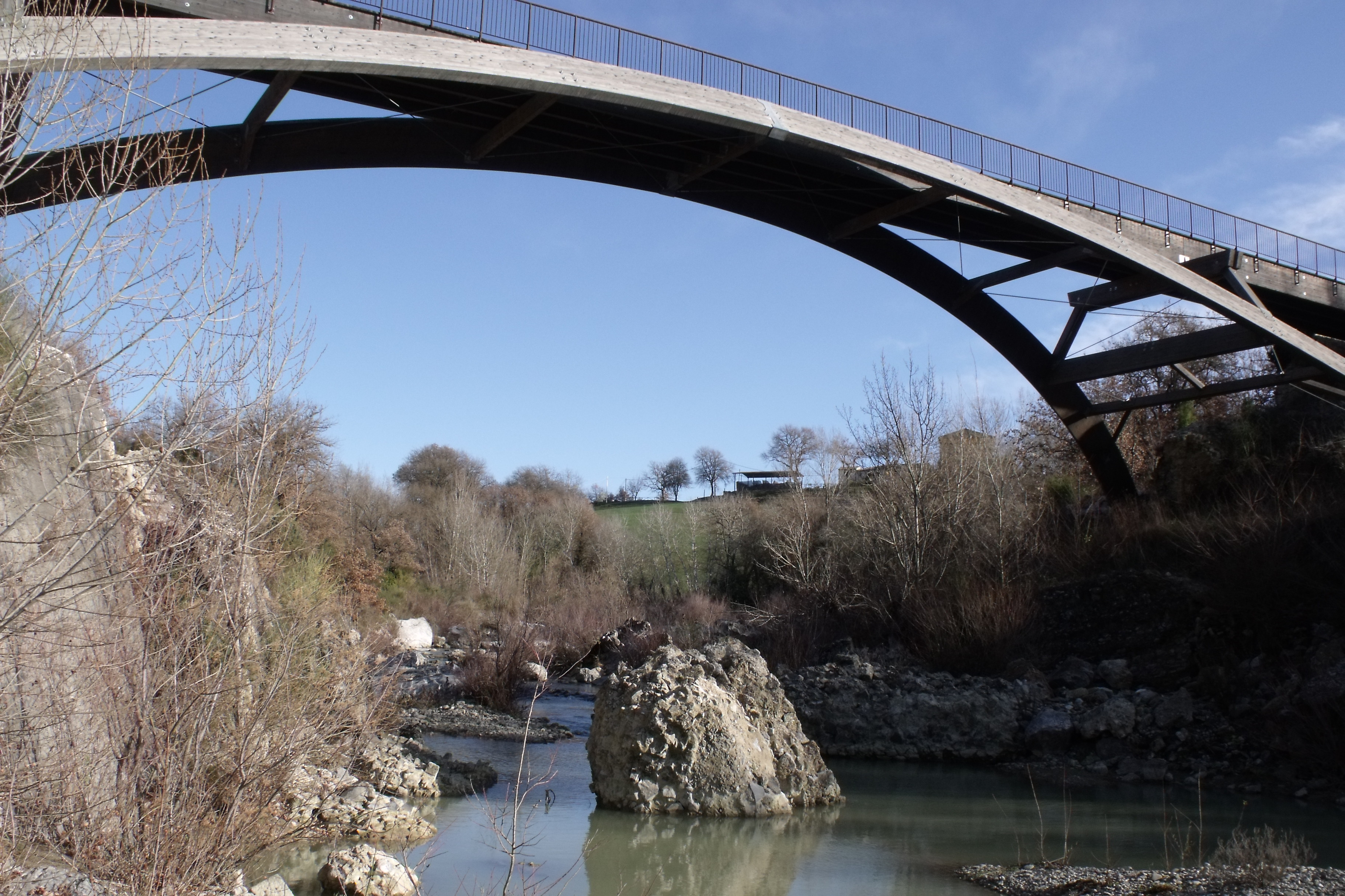 The Bridge Ponte sull'Orcia over the Orcia River near Bagno Vignoni (San Quirico d'Orcia) and Rocca d'Orcia (Castiglione d'Orcia), Province of Siena, Tuscany